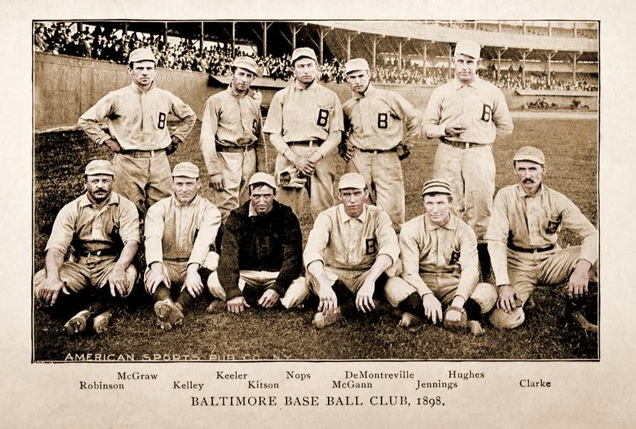 1898 Baltimore Orioles baseball teamStanding, left to right: John McGraw, Willie Keeler, Jerry Nops, Gene DeMontreville, Jay HughesSitting, left to right: Wilbert Robinson, Joe Kelley, Frank Kitson, Dan McGann, Hughie Jennings, Boileryard Clarke